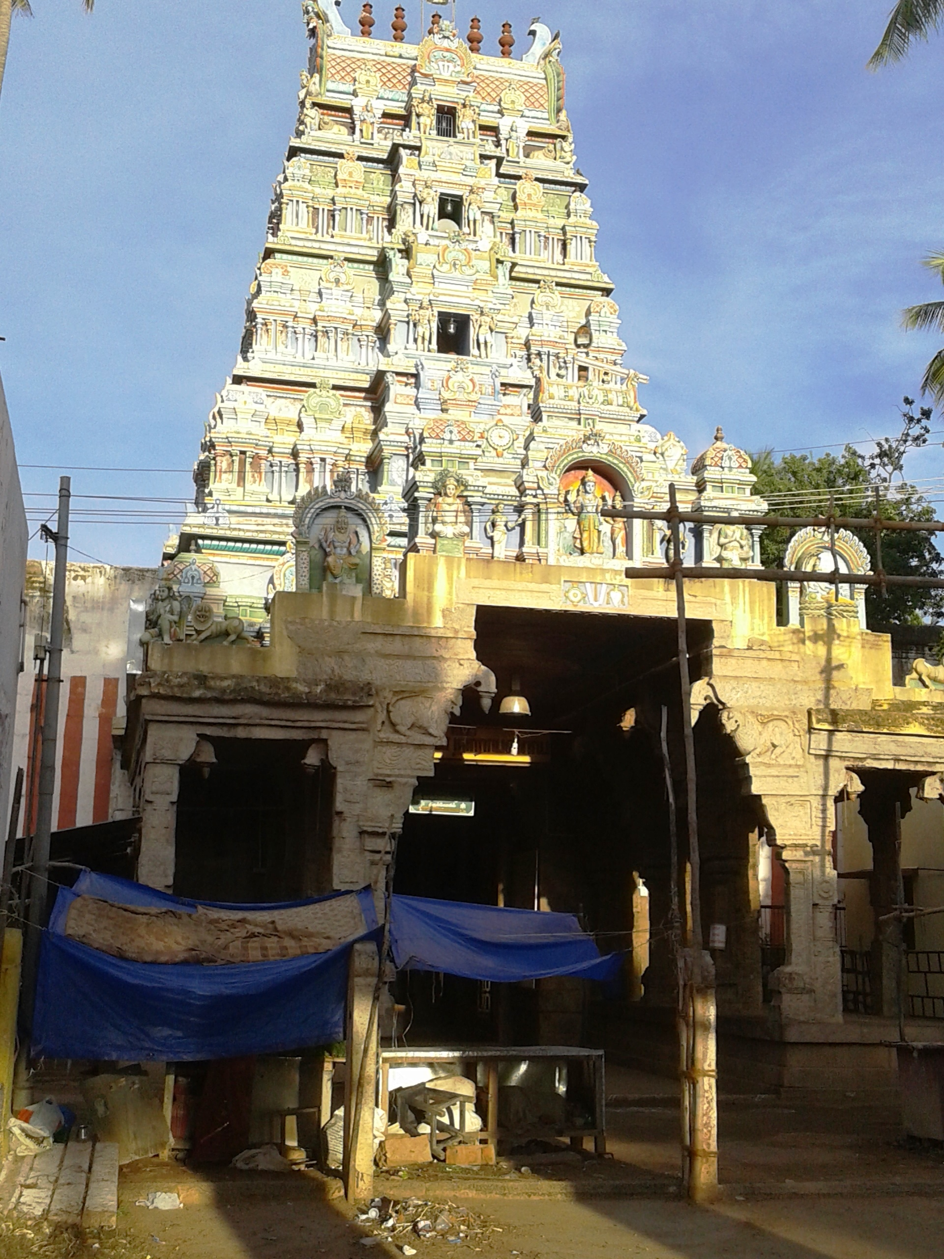 Kalamegaperumaltemple